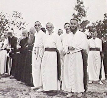 Australian War Memorial Caption: Kuching, Sarawak. 1945-09-11. Dutch priests at the main entrance to Kuching Prisoner of War Camp, waiting to greet members of Kuching Force who are taking over the administration of the area from the Japanese.